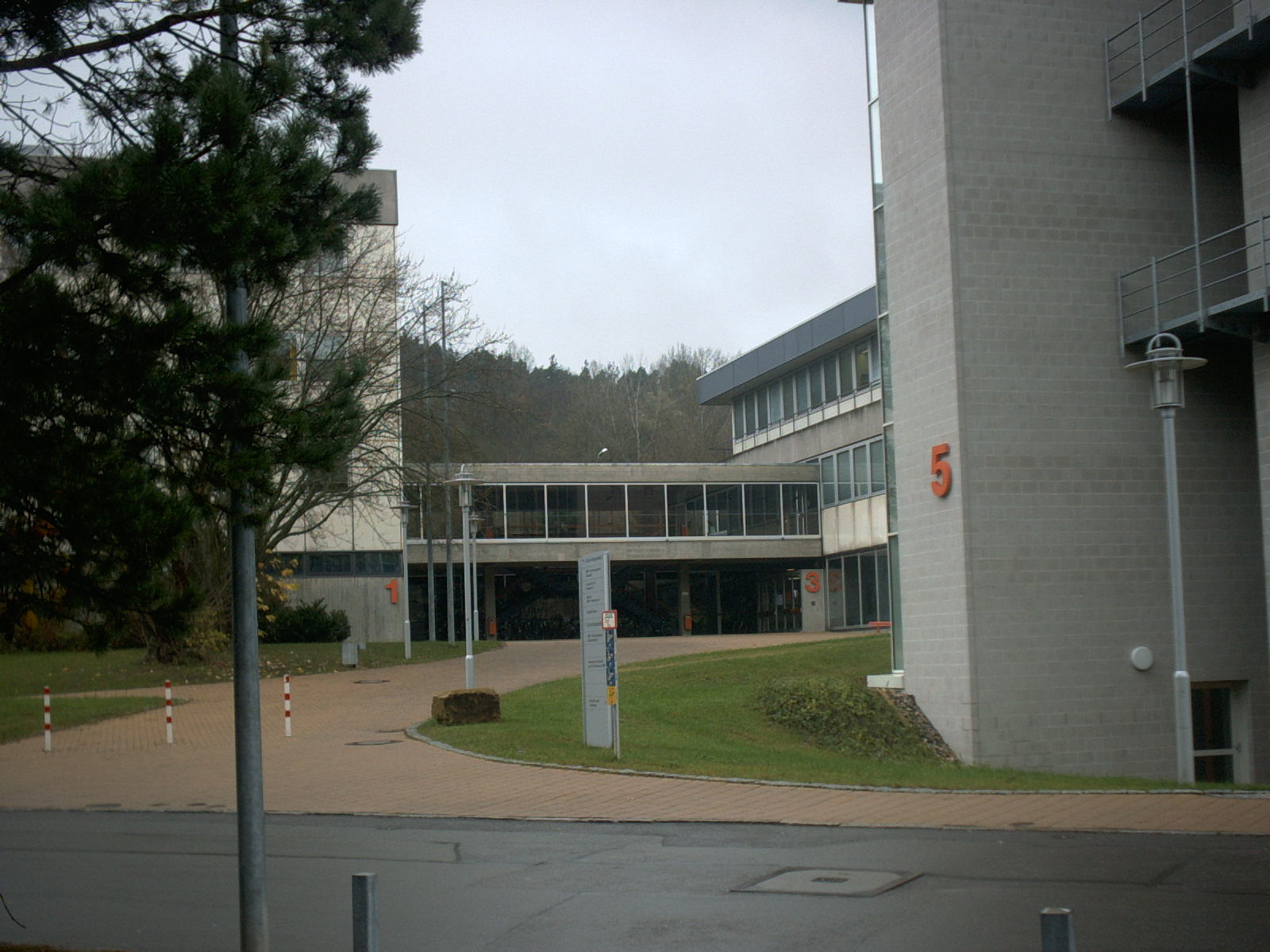 The "Zentrum für Molekularbiologie der Pflanzen" (Center for Molecolar Biology of Plants) of the University of Tübingen, is a multidisciplinary (plant physiology, plant biochemistry, plant genetics) plant science research facility.